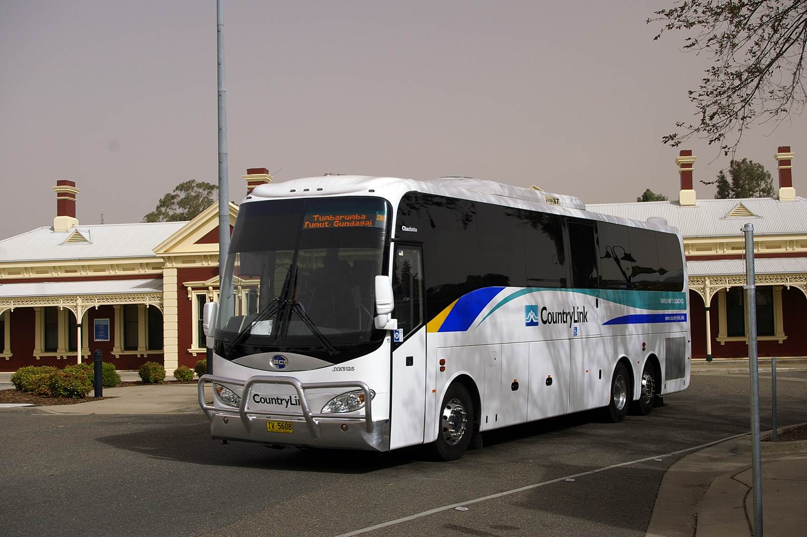 Countrylink Coach operated by Makeham's Coaches - BCI 6125 (ISM)